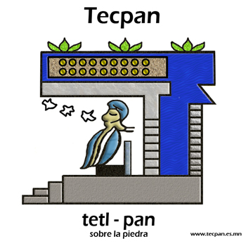 Logo Tecpan